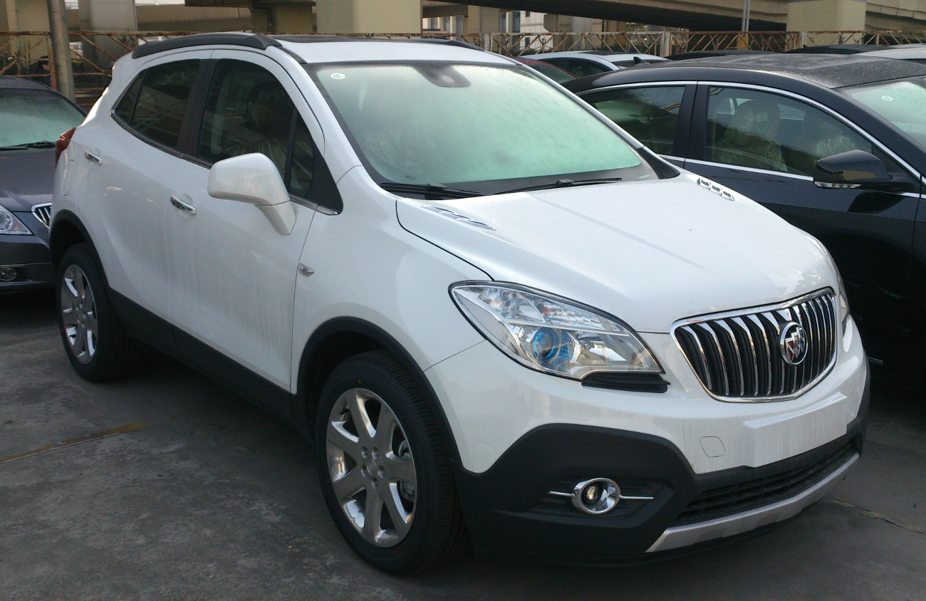 Buick Encore photographed in Shanghai, China.